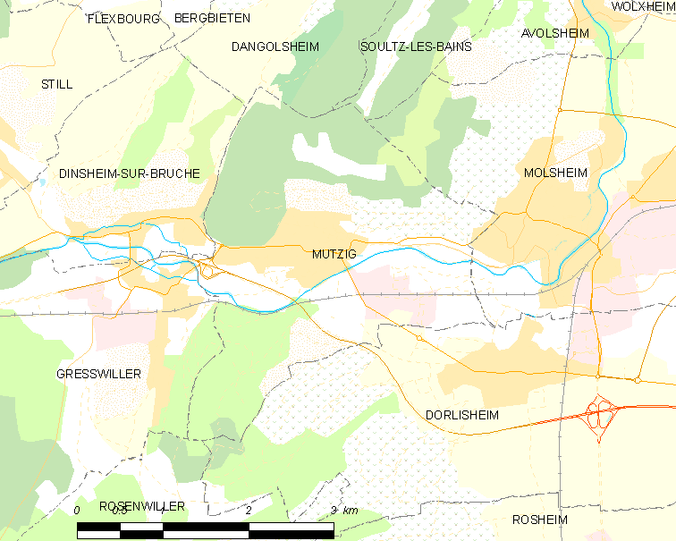 Map of French municipality